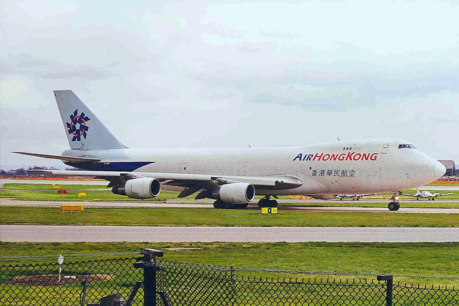 Should have been 5A-DIL, but an embargo on Libya cancelled the 747 order of Libyan Arab Airlines.